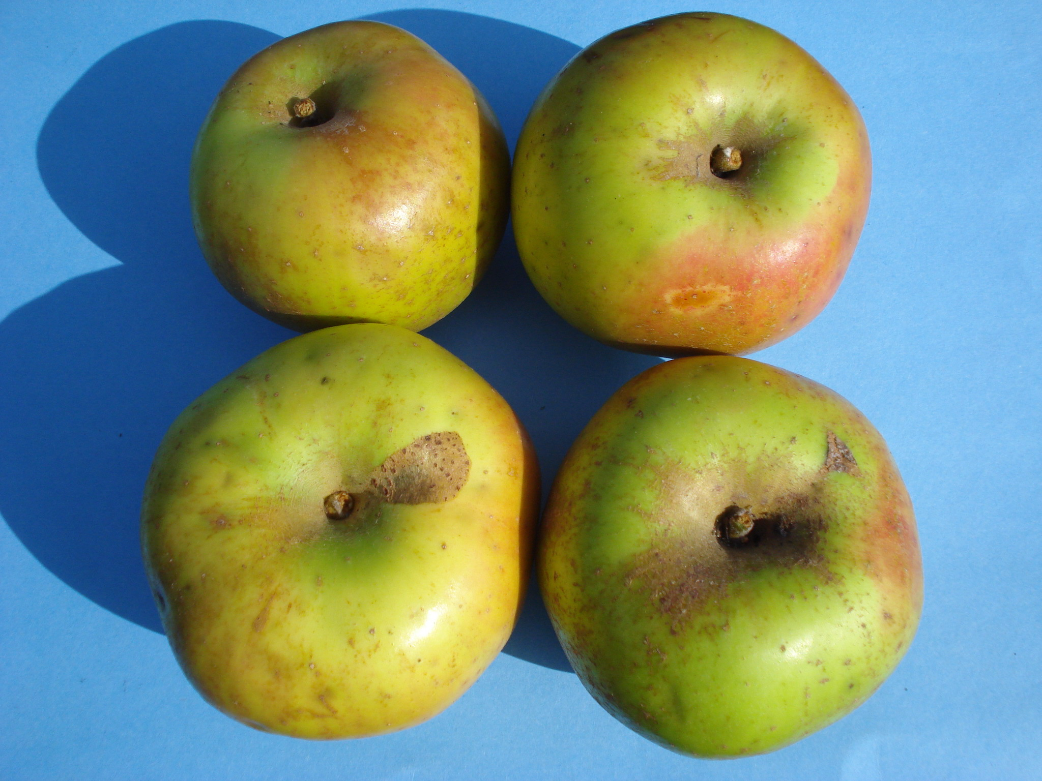 "Canada renette" apple cultivar, grown in Medjimurje County, northern Croatia